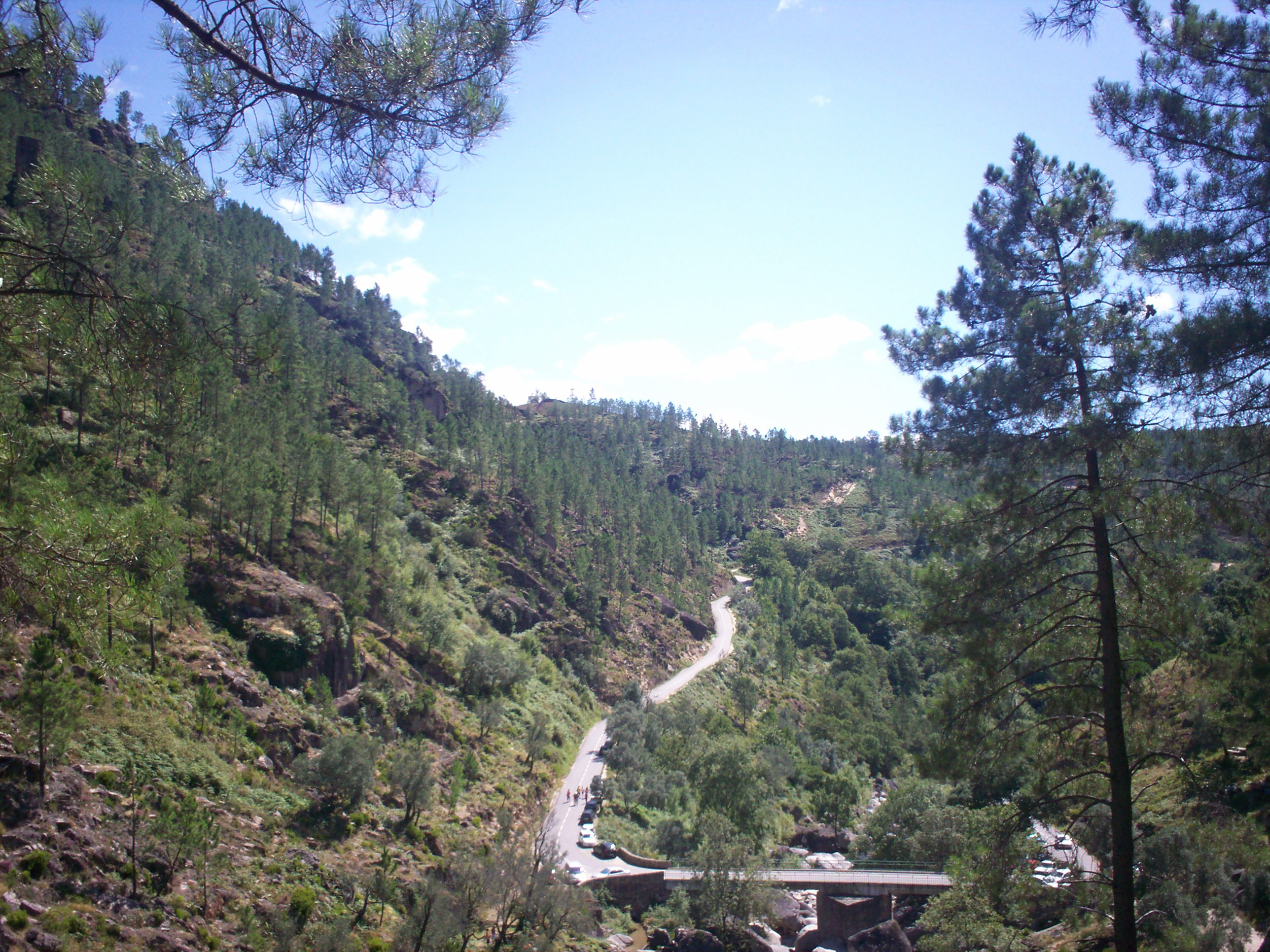 Forest in the Gerês Mountain in Portugal.